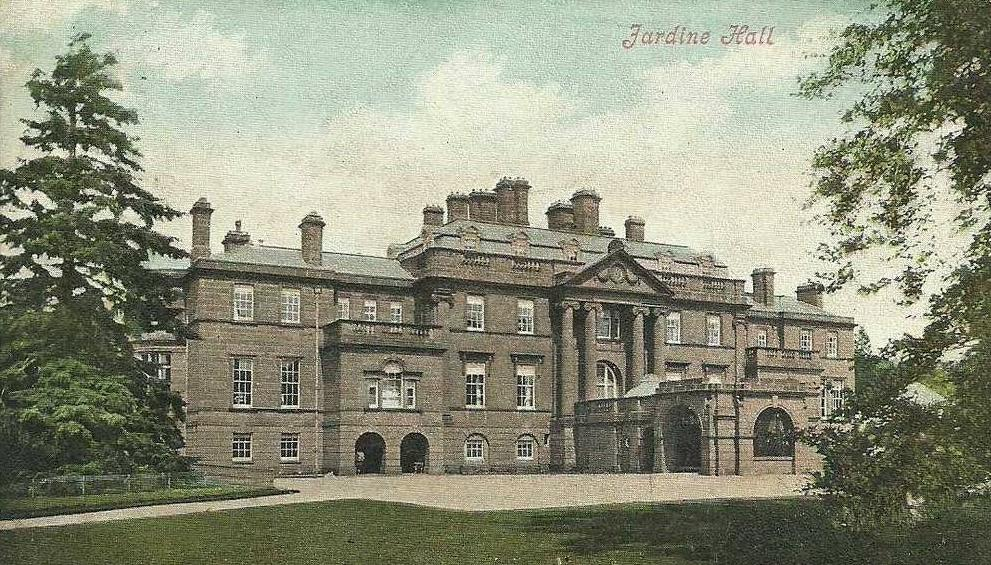 Jardine Hall, Dumfriesshire, postcard from 1909